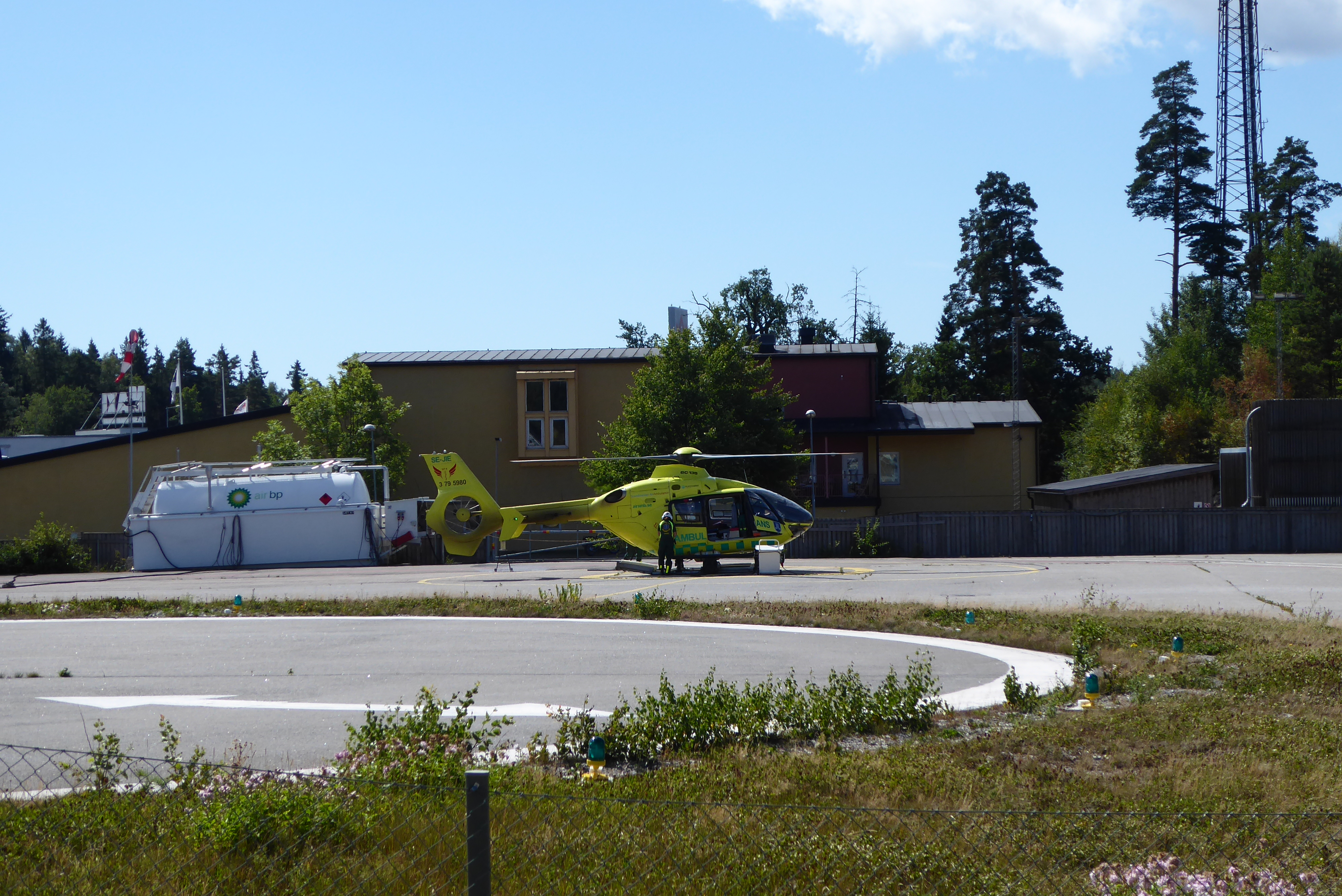 Ambulance helicopter Eurocopter EC 135 at Mölnvik heliport, Gustavsberg